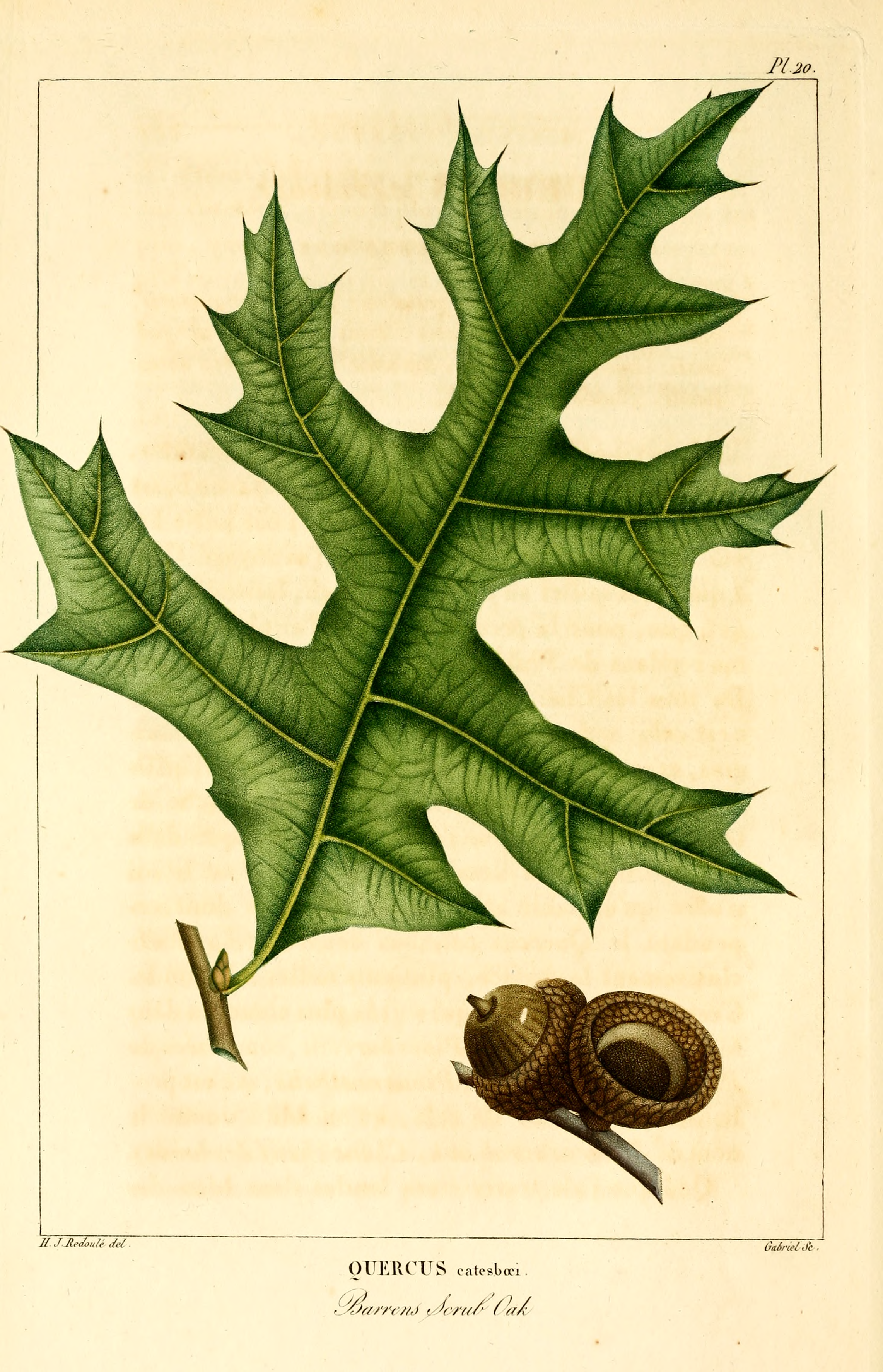 Quercus laevis (Caption: Barrens Scrub Oak. Quercus catesbœi.)